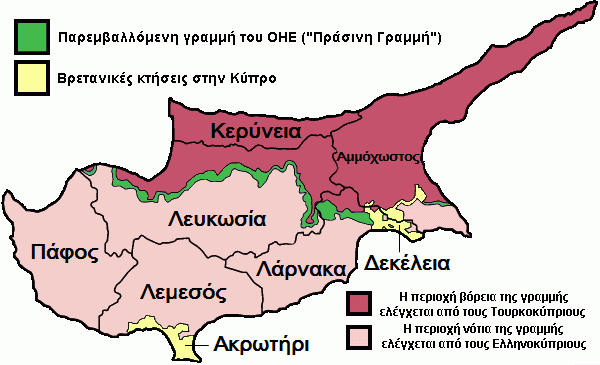 Map of the districts of Cyprus with the names and annotations in Greek, and showing the Turkish Occupied by force Northern Cyprus, United Kingdom Sovereign Base Areas, and United Nations buffer zone.